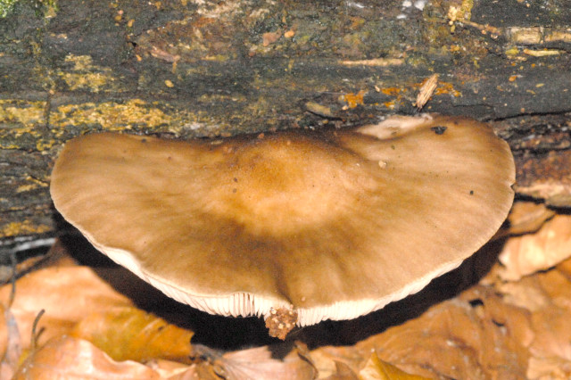 Pluteus spec. from Commanster, Belgium. The determination of the species shown in this picture has been verified.